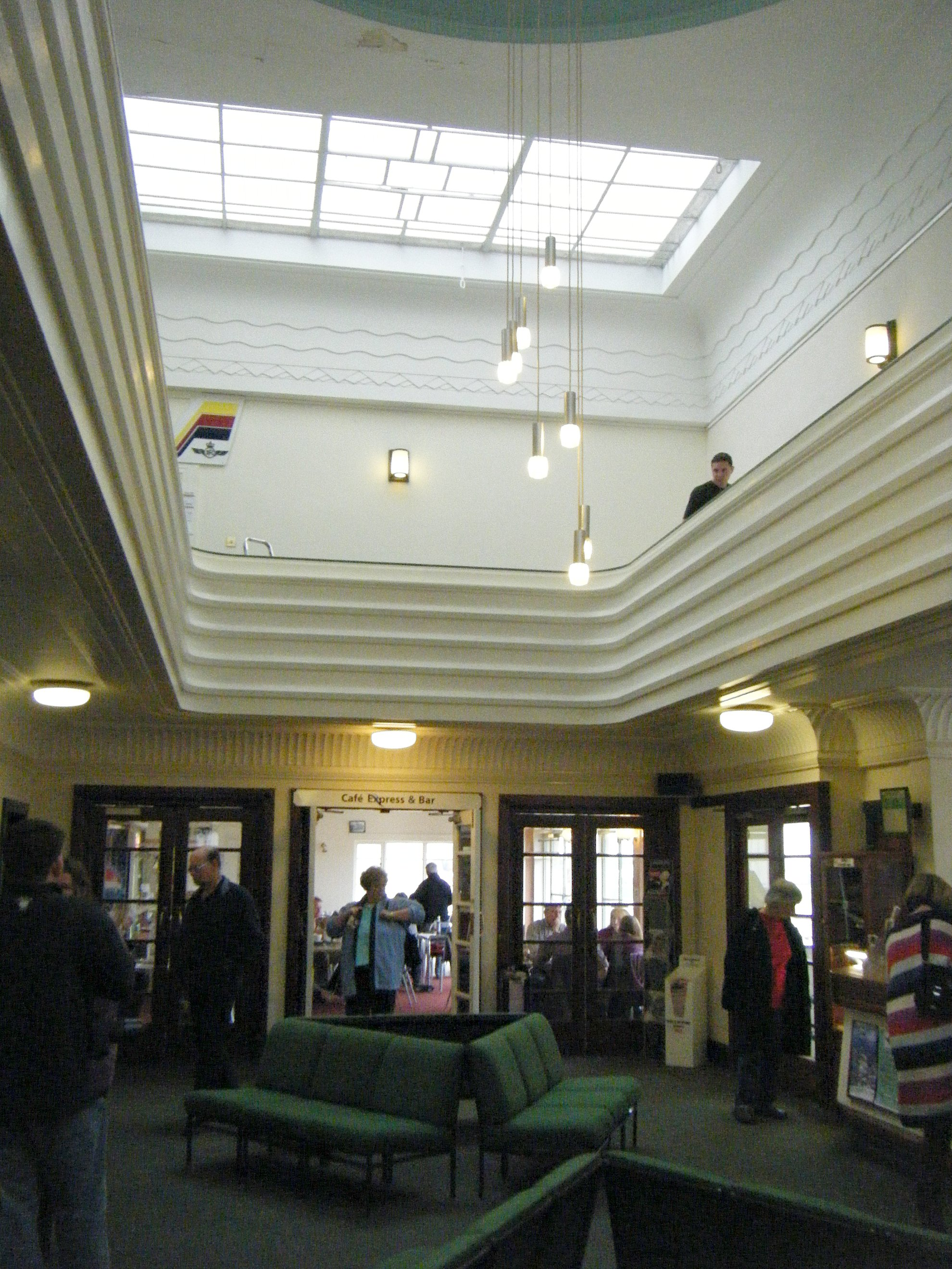 Main Hall of the terminal of Shoreham (Brighton City) Airport